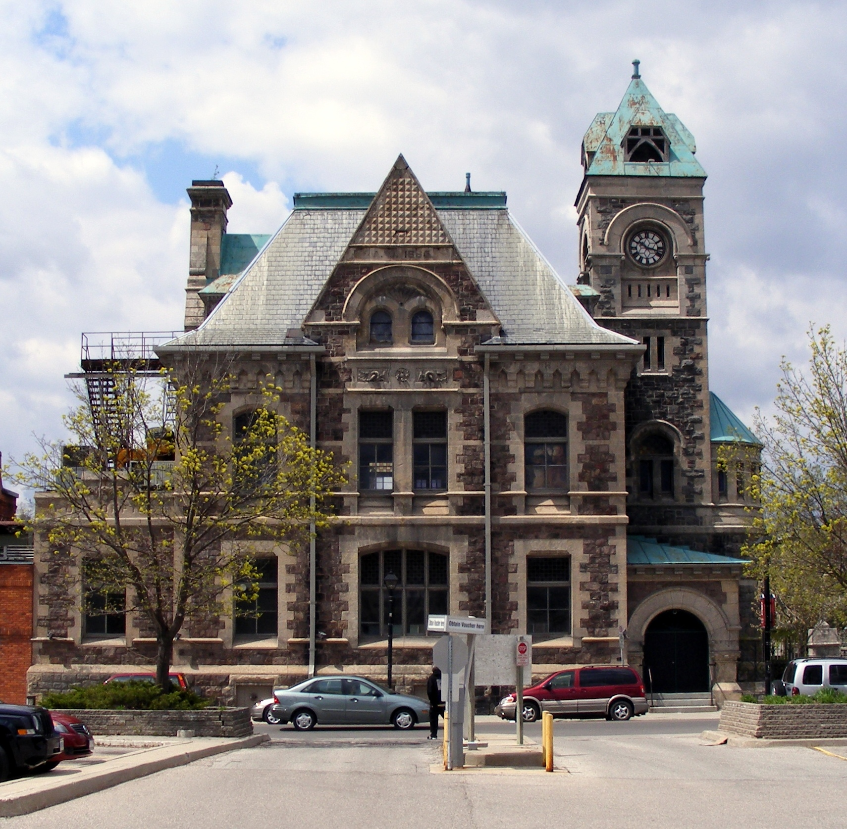 Old Post Office building in Galt, Cambridge, Ontario. Built 1886 per plaque.